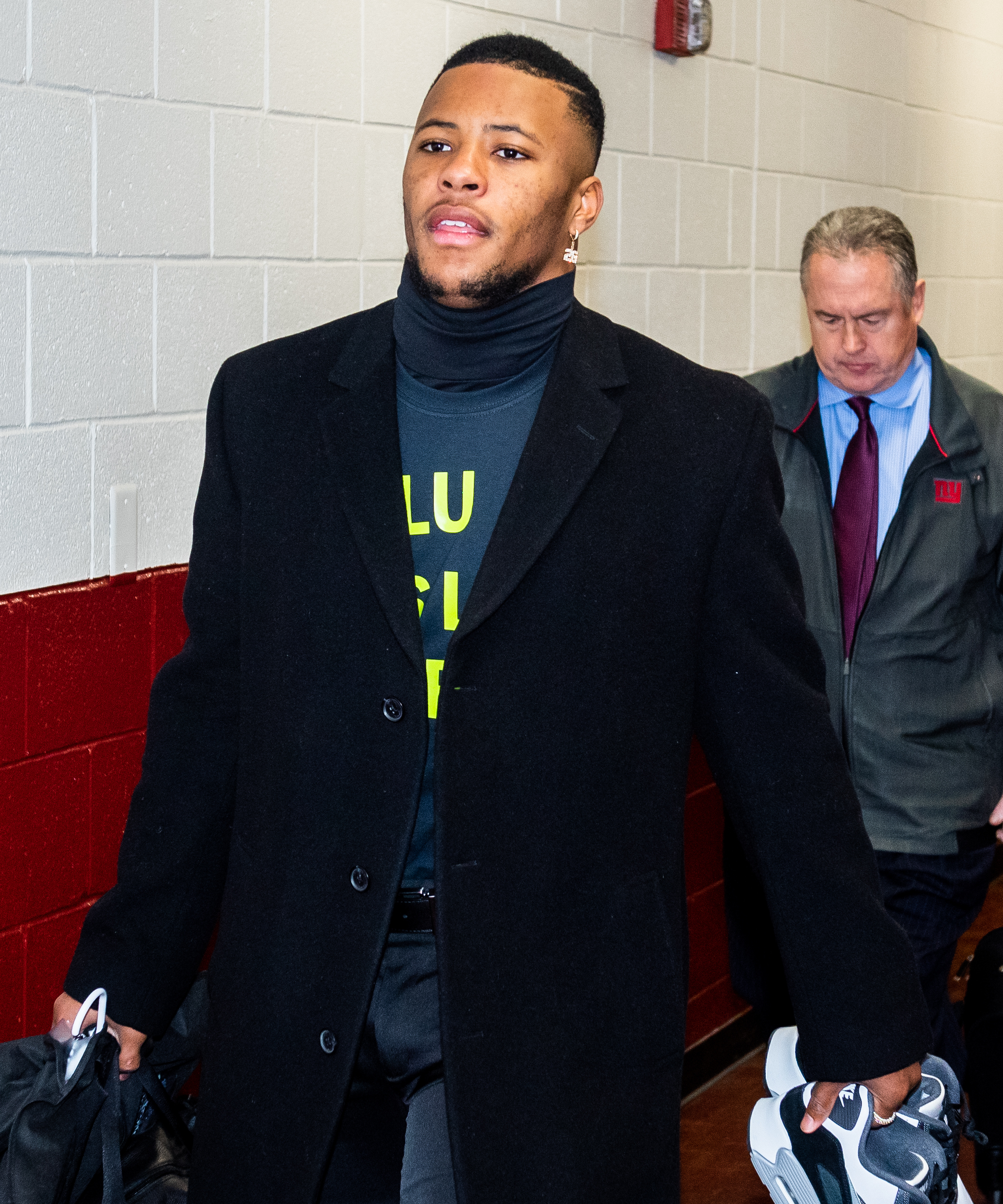 In 2019